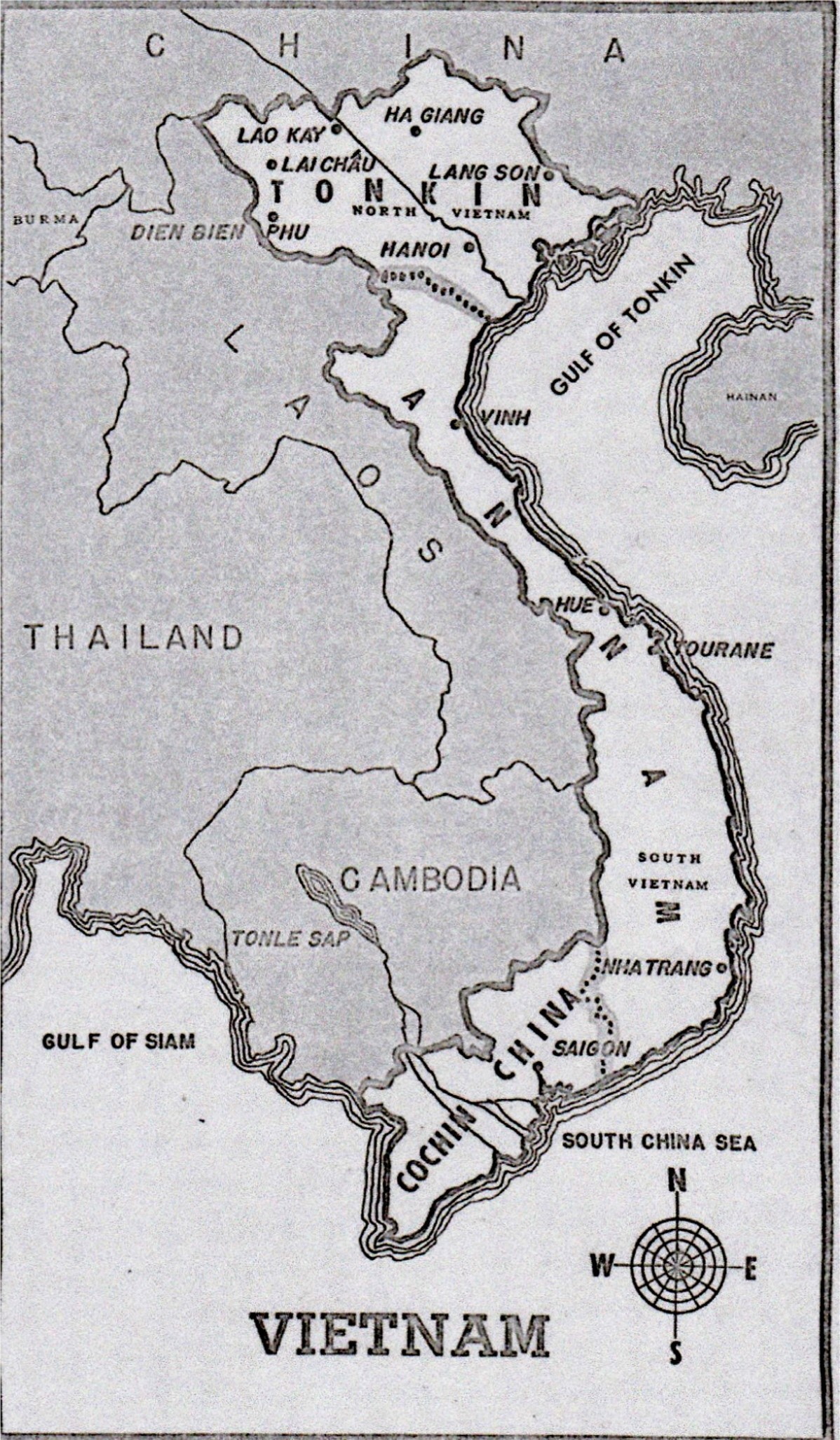 The French divided Vietnam into Tonkin, Annam, and Cochin China until 1949.